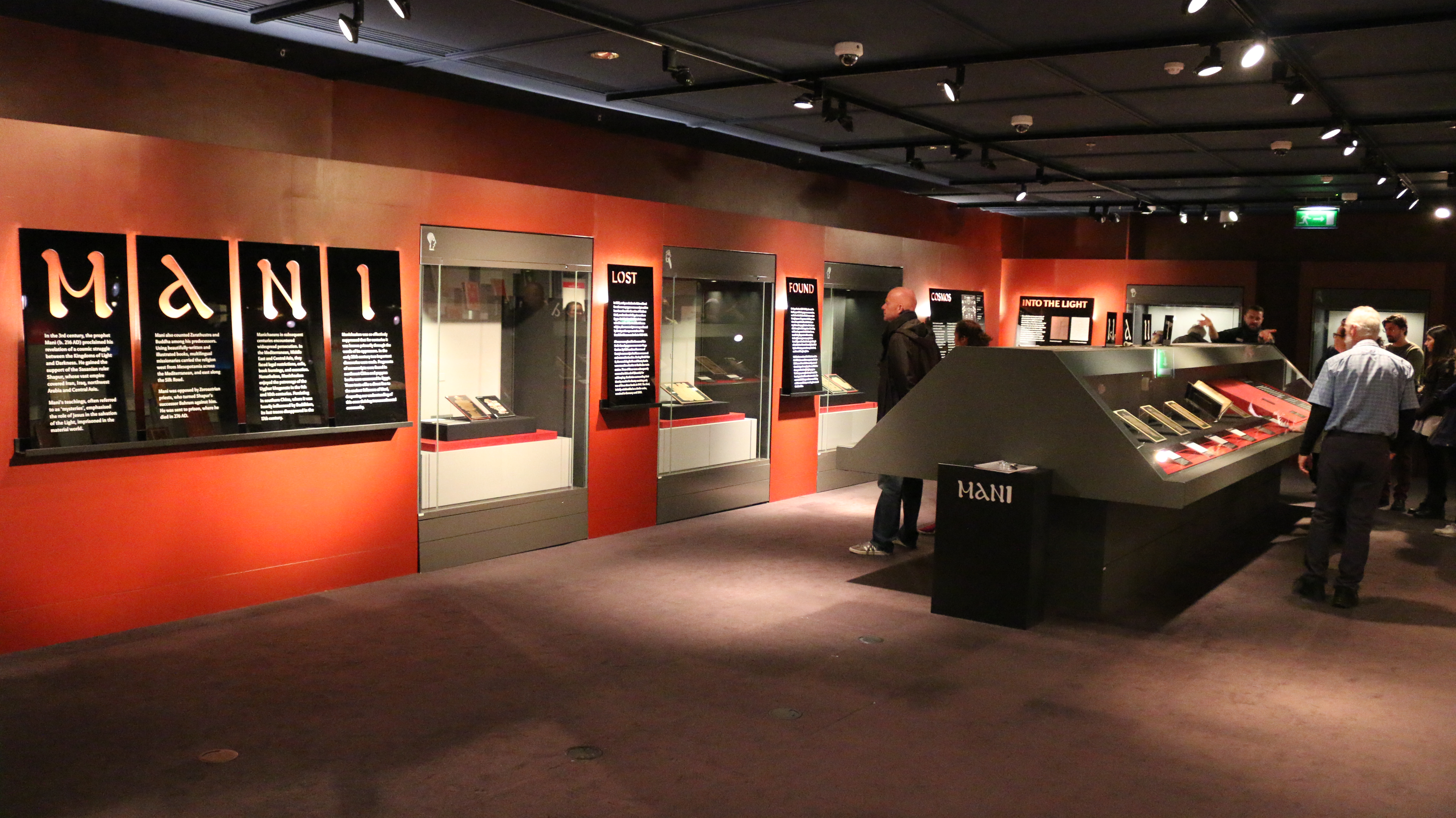 The Mystery of MANI - Exhibition on 3rd-century Persian prophet - Chester Beatty Museum Dublin 2019 - Photo: Persian Dutch Network